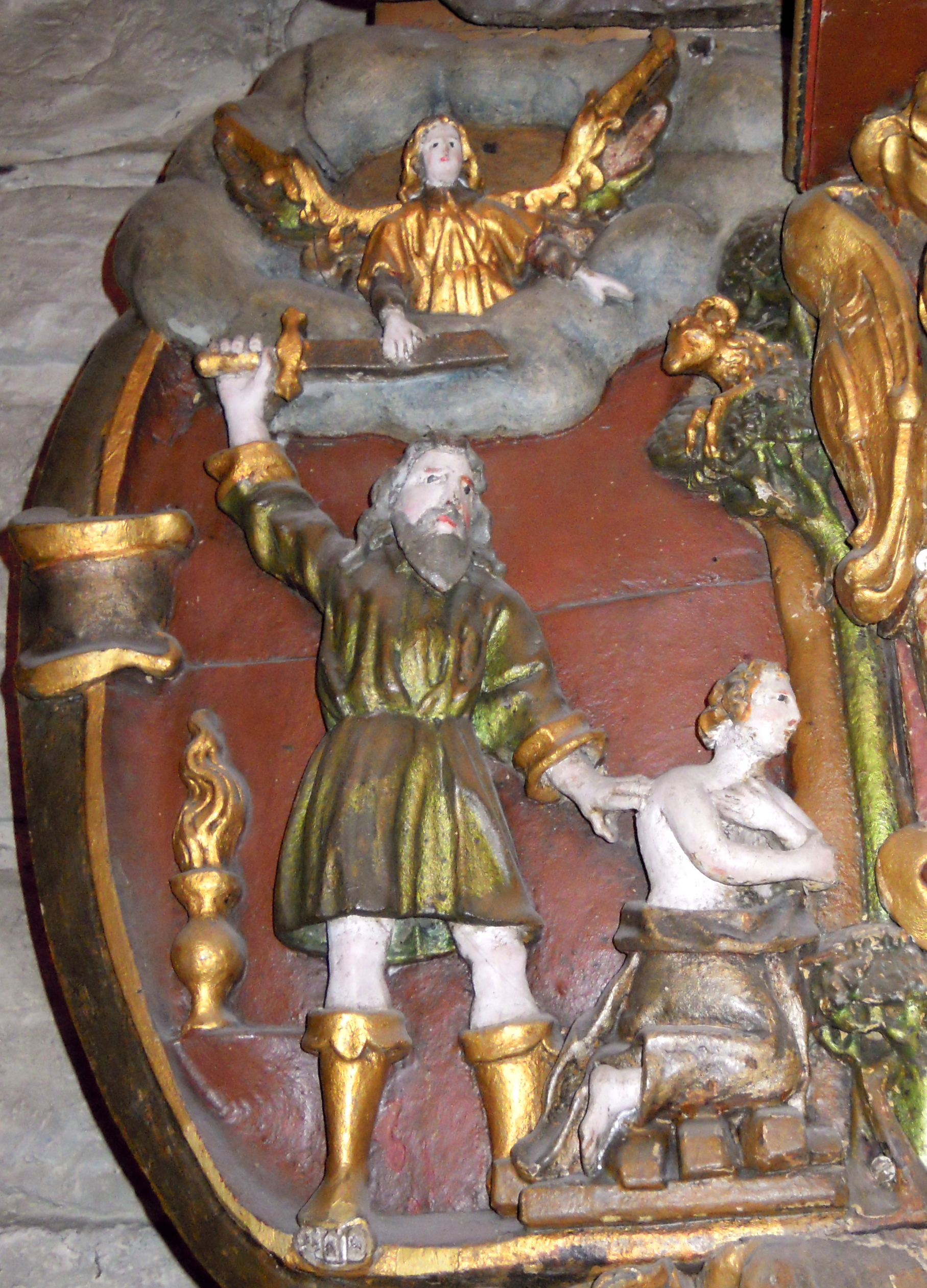 Abraham - Sacrifice of Isaac, by Anders Lauritzen Smith in Stavanger Cathedral, Norway